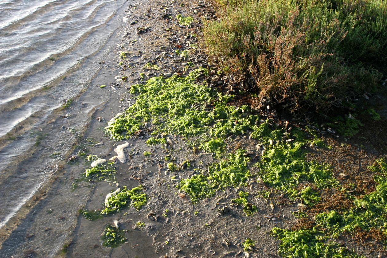 Sea lettuce (Ulva sp.) strewn around the intertidal mudflat of a salt marsh. Taken from a footbridge at Bolsa Chica Ecological Reserve in a March afternoon.